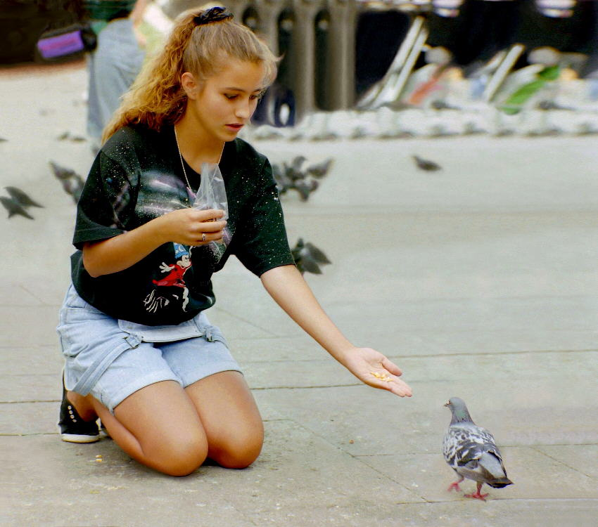 Girl feeding a pigeon